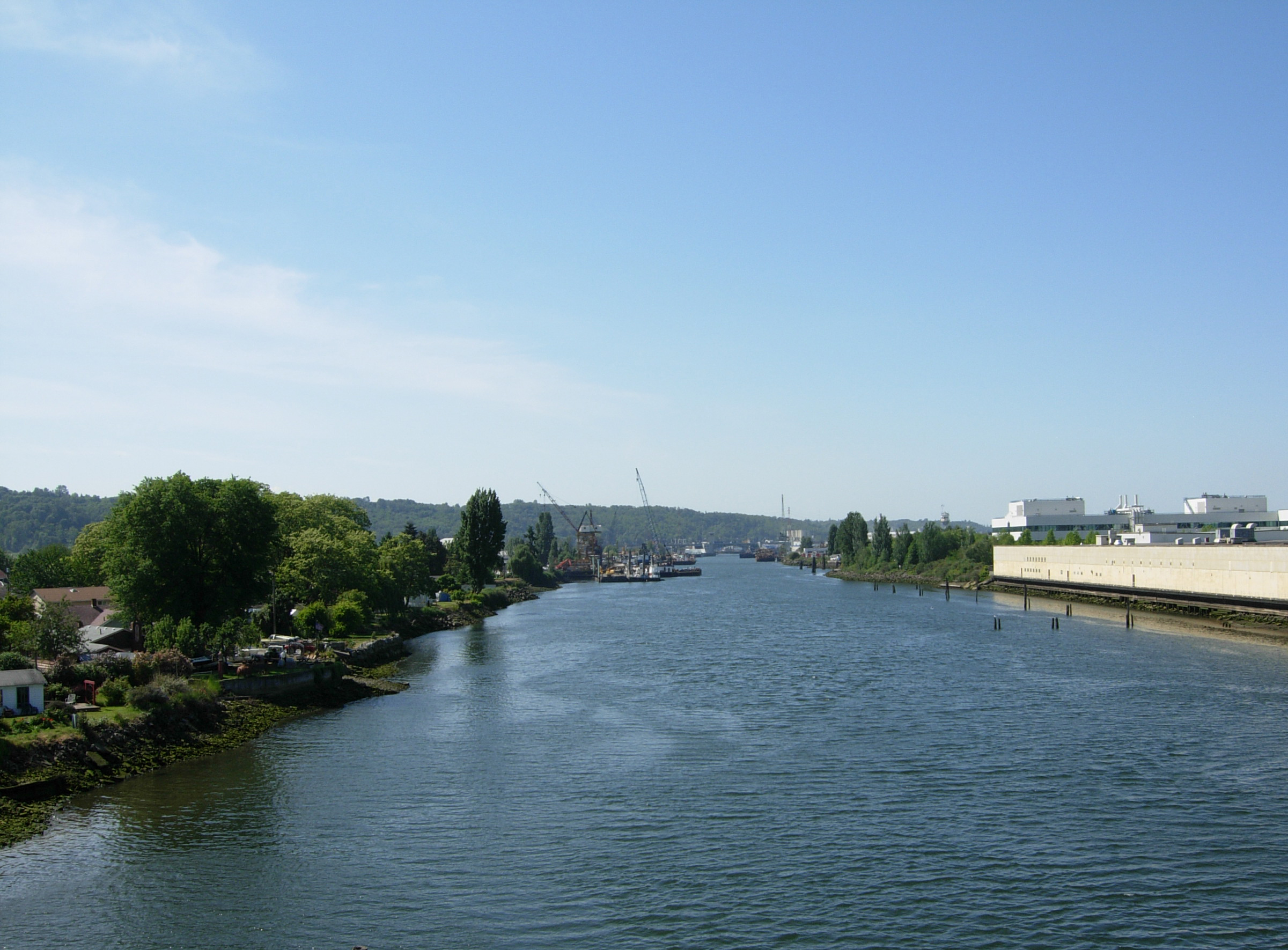 The Duwamish River seen from the South Park Bridge, South Park, Seattle.